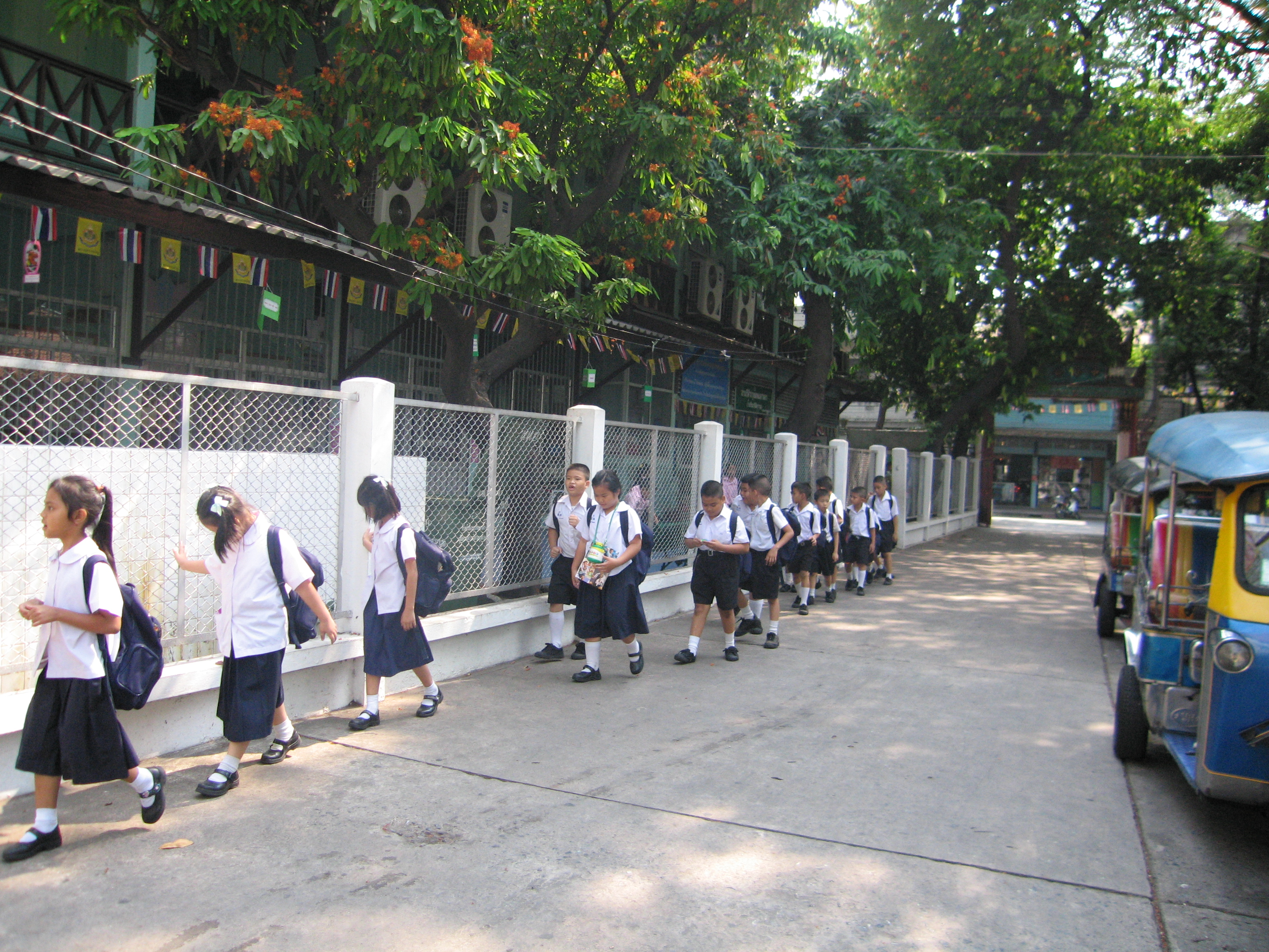 In Bangkok, these students were returning from their lunch break. Their school was next to a temple that we were visiting.Thai Students